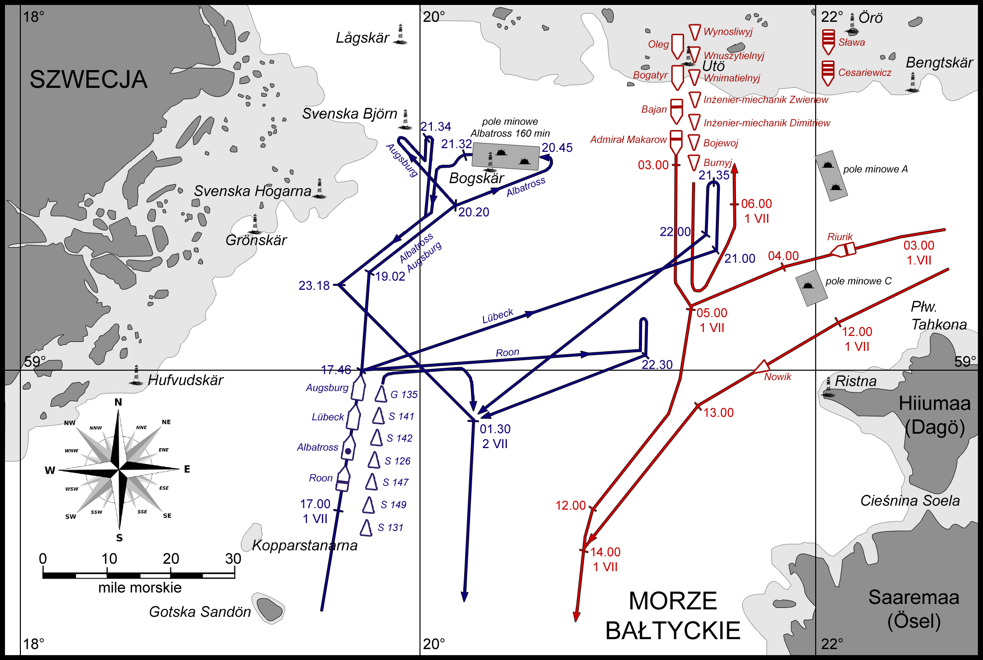 German night minelaying action near Bogskär lighthouse on 1st and 2nd of the July 1915 and russian fleet assembly in area west from Saaremaa on July 1, 1915.